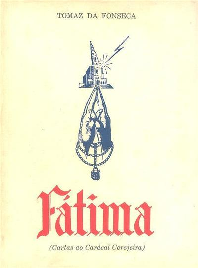 Cover of book Fátima: Cartas ao Cardeal Cerejeira